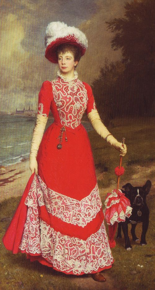 /Maria_de_Orléans